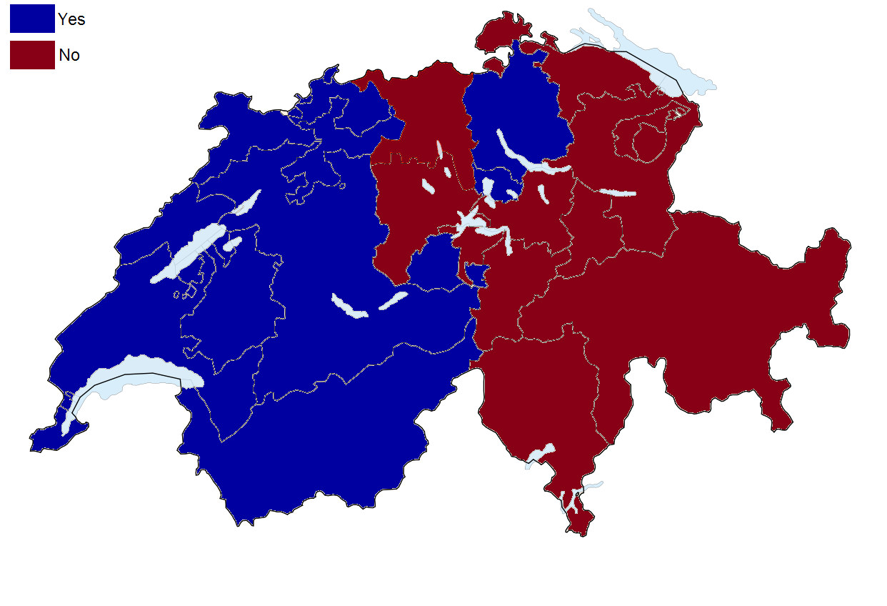 Swiss Schengen and Dublin treaty referendum results by canton, 2005